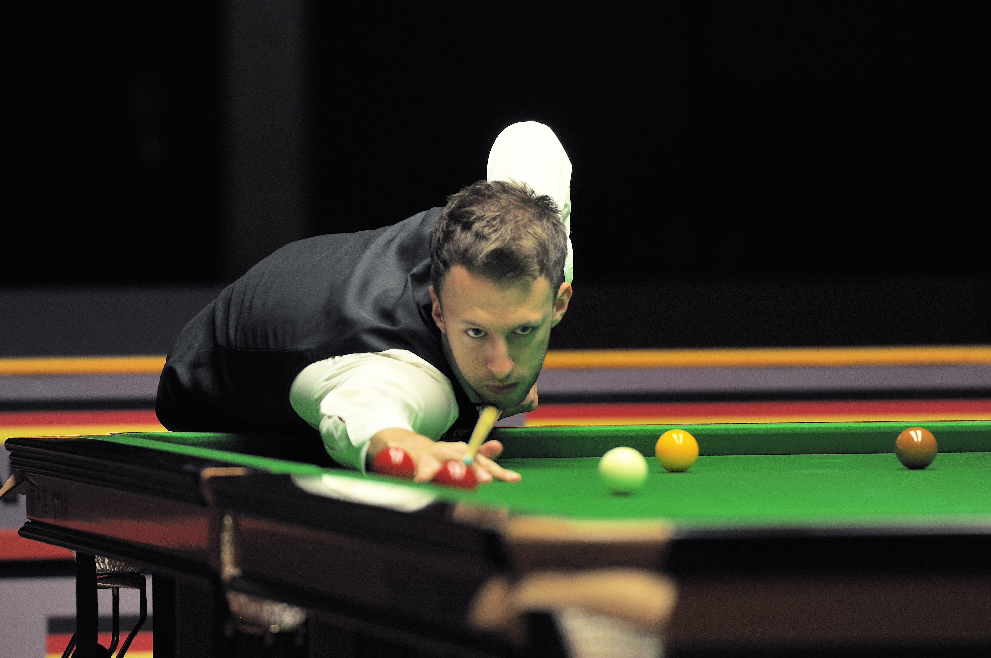 Picture taken in Berlin during the Snooker German Masters in 2014. Judd Trump.